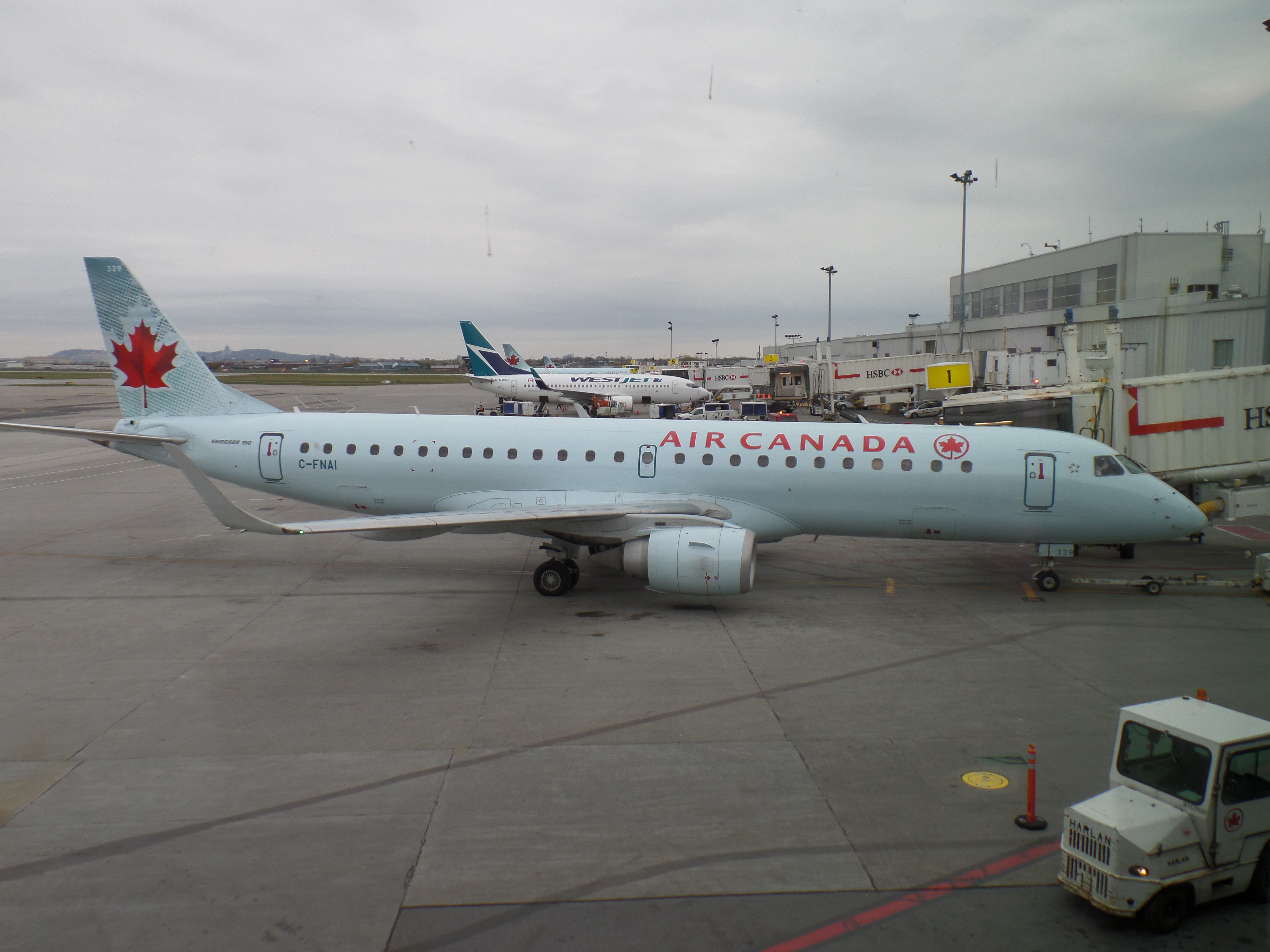 Air Canada Embraer 190 C-FNAI at Montreal - Pierre Elliott Trudeau International Airport on October 25, 2014